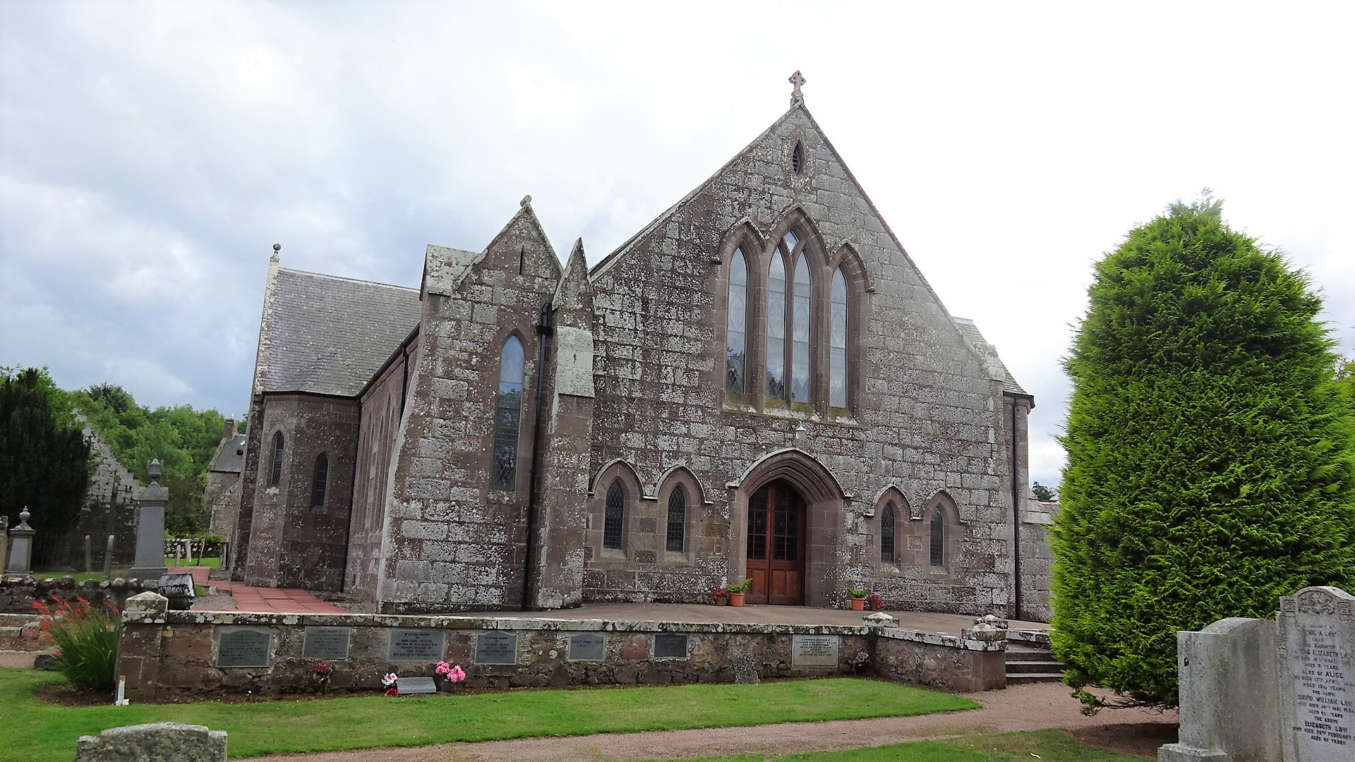 Dunnottar Church, Stonehaven, Aberdeenshire. East facing frontage.